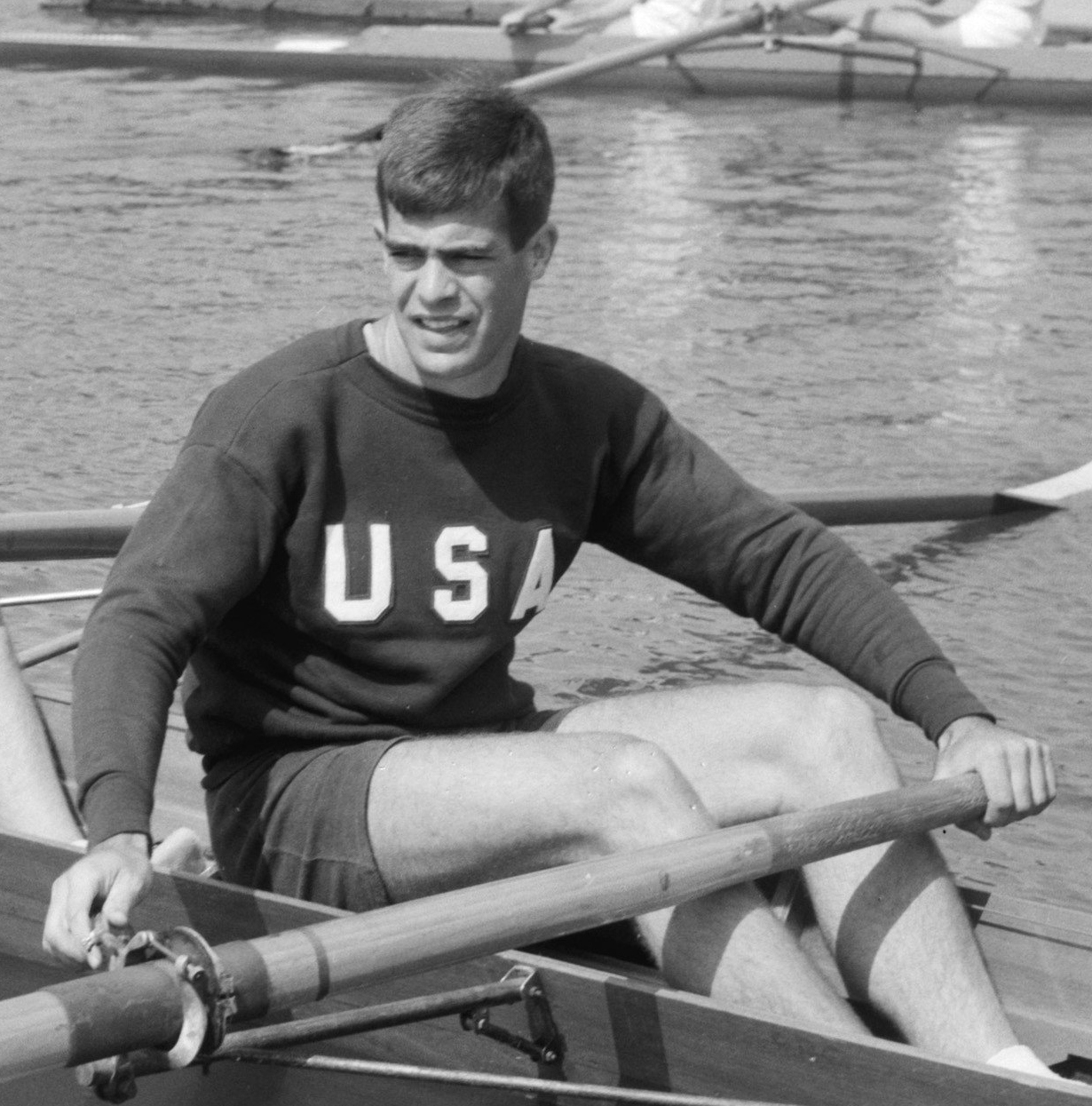 Training Europese roeikampioenschappen, Amerikaanse twee met stuur